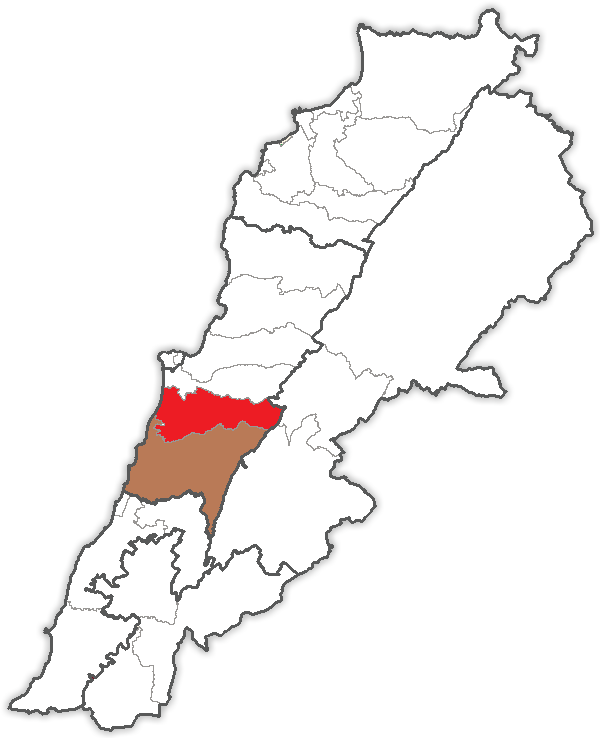 electoral district (2017 Election Law)